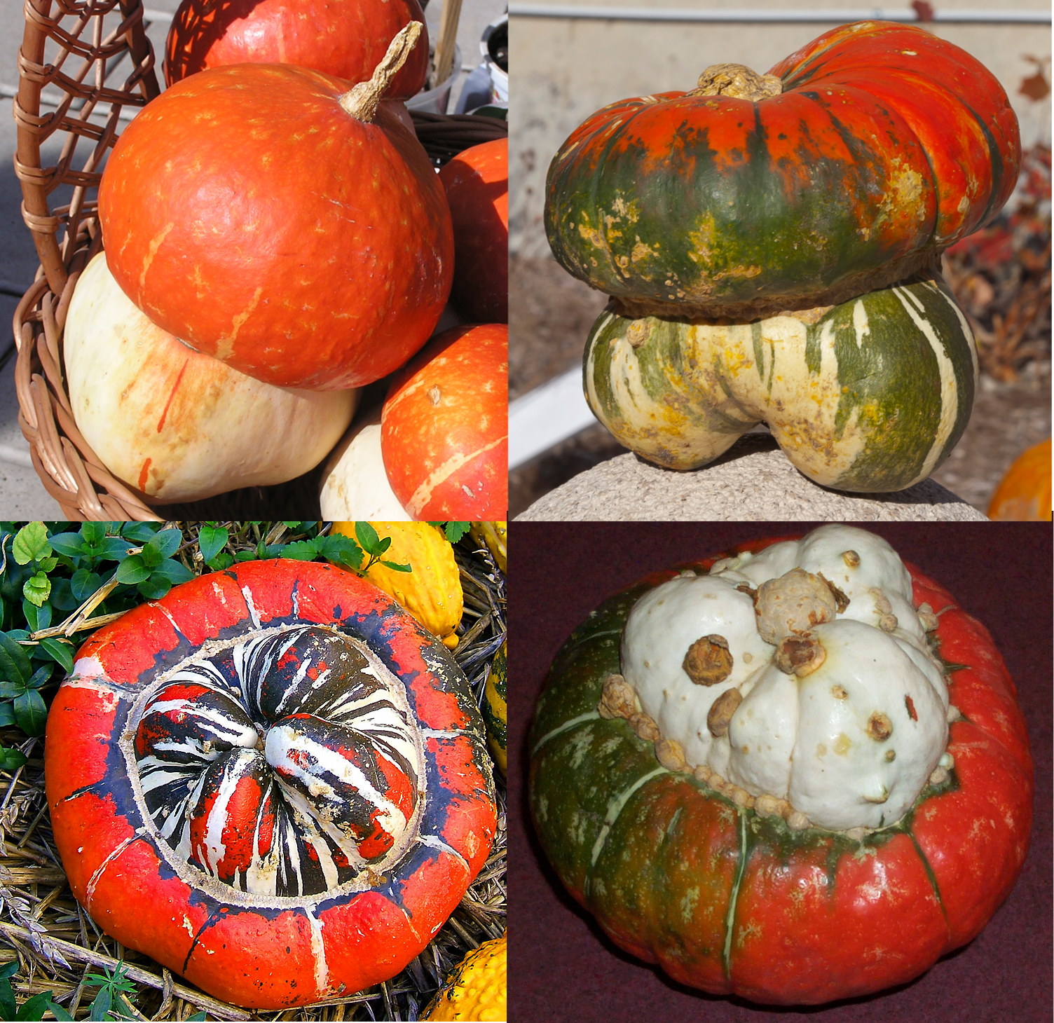 4 different cultivars.